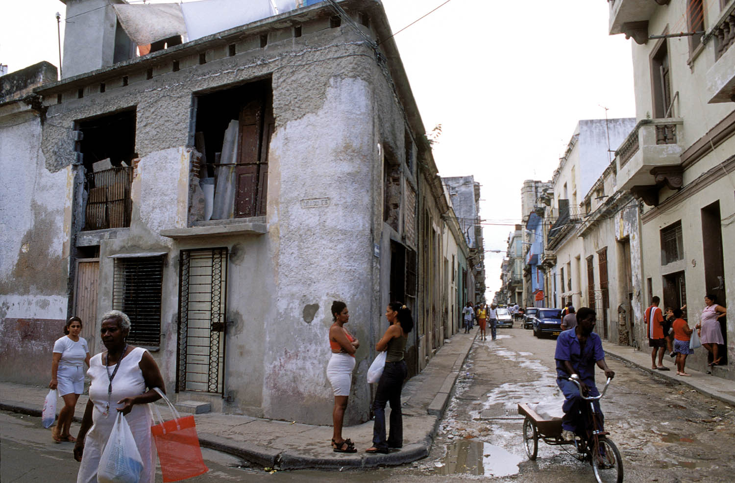 A street scene at the Old Havana (La Habana Vieja), a UNESCO World Heritage Site.